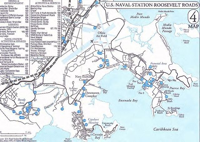 United States Navy Map of former U.S. Naval Base Roosevelt Roads in Puerto Rico.